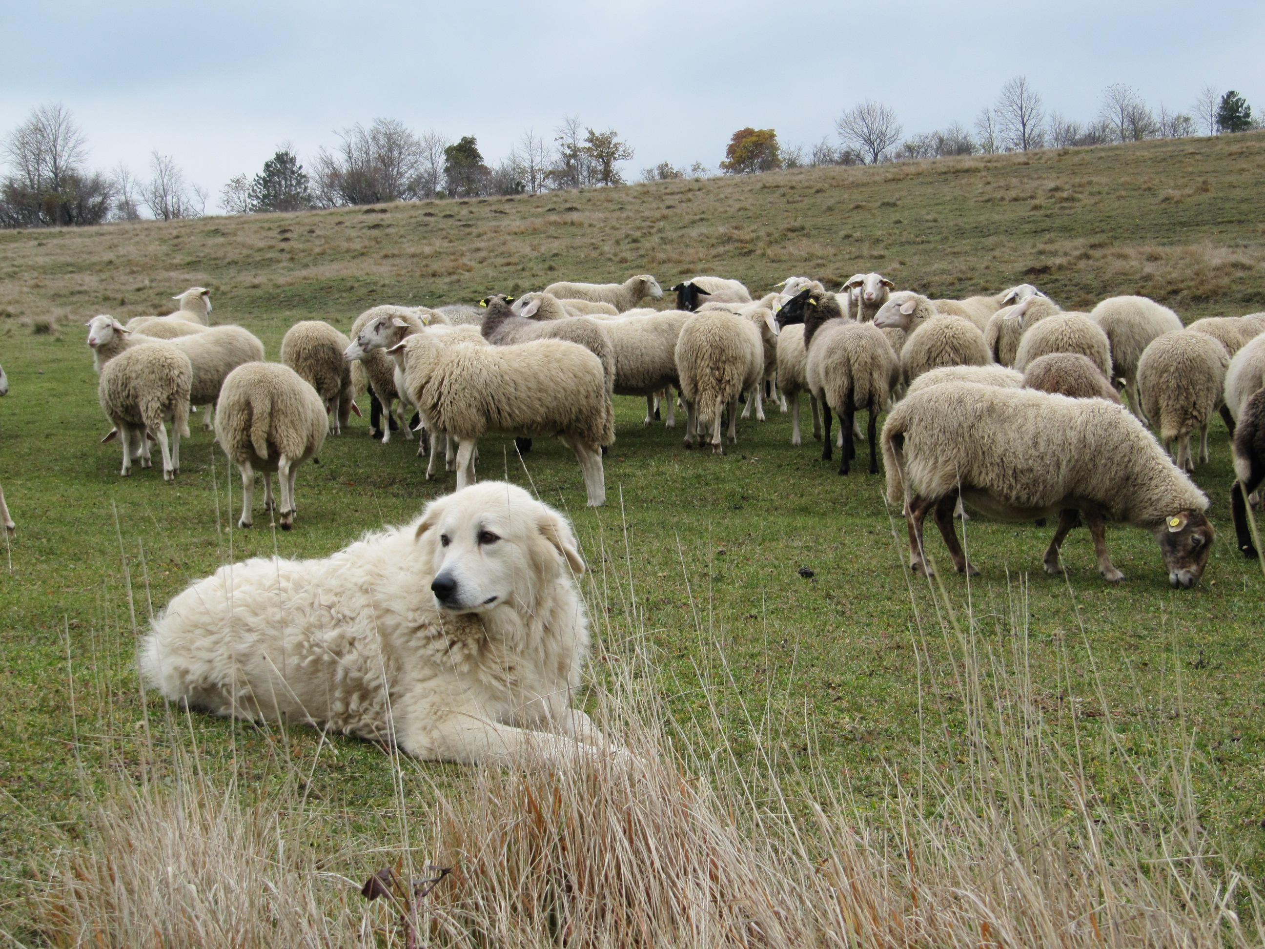 Shepherd dog, probably a cane da pastore Maremmano-Abruzzese, with sheep, Dolenja vas near Sežana, Slovenia